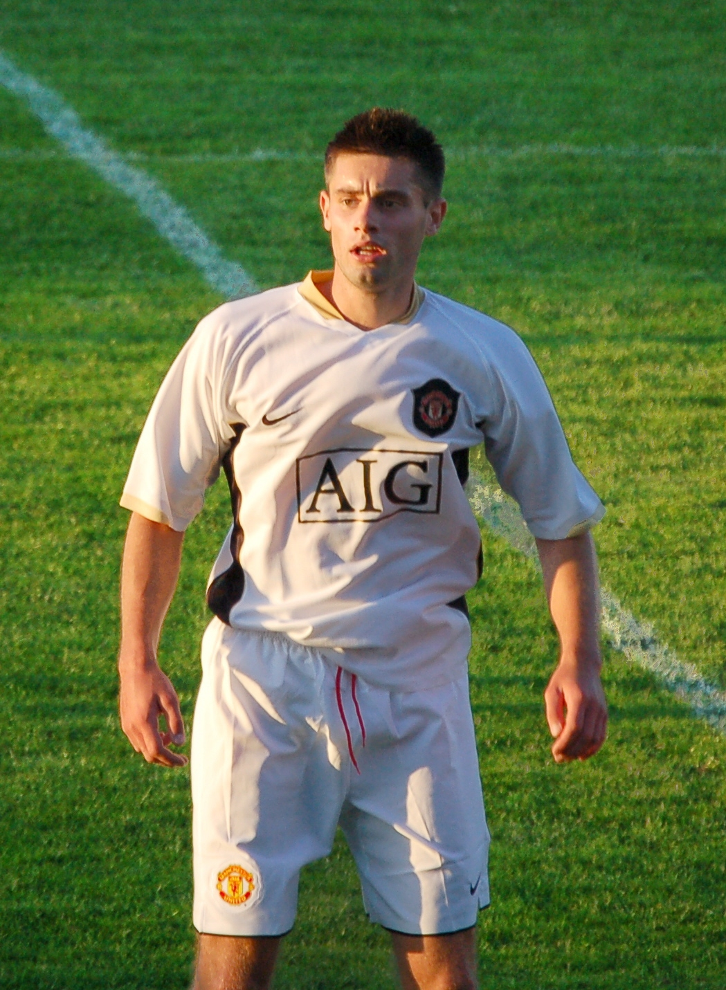 Ritchie Jones playing for Man utd pre-season 2007.